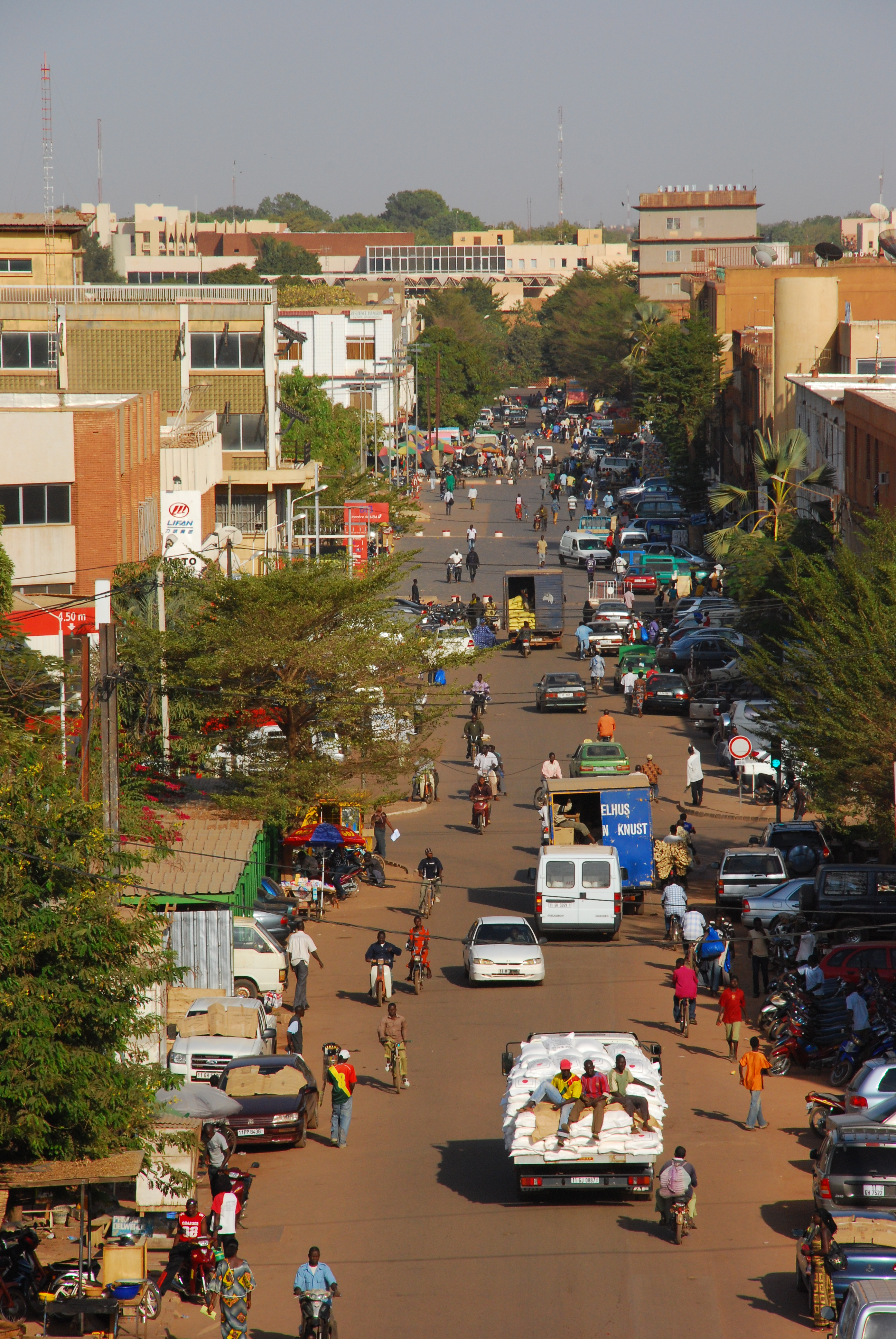 city centre, Ouagadougou, Burkina Faso, West Africa (from roof of the Amiso hotel)